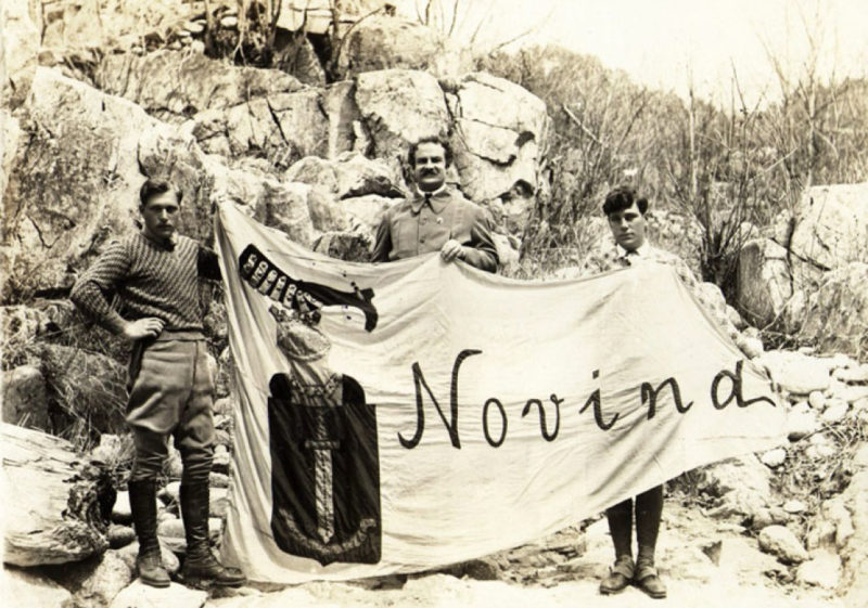 Yuri Jankowski centre with his son Valery (right) , Arsenius (left) after 1922 and before 1945 with Novina coat of arms at their resort in northern Korea